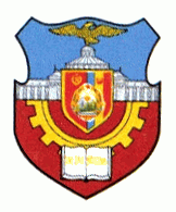 Communist coat of arms of Bucharest municipality, Socialist Republic of Romania.